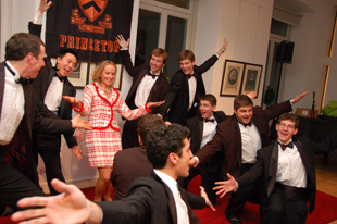 The Princeton Nassoons perform at the Holzhausenschlösschen in Frankfurt, Germany during their tour in January 2008.